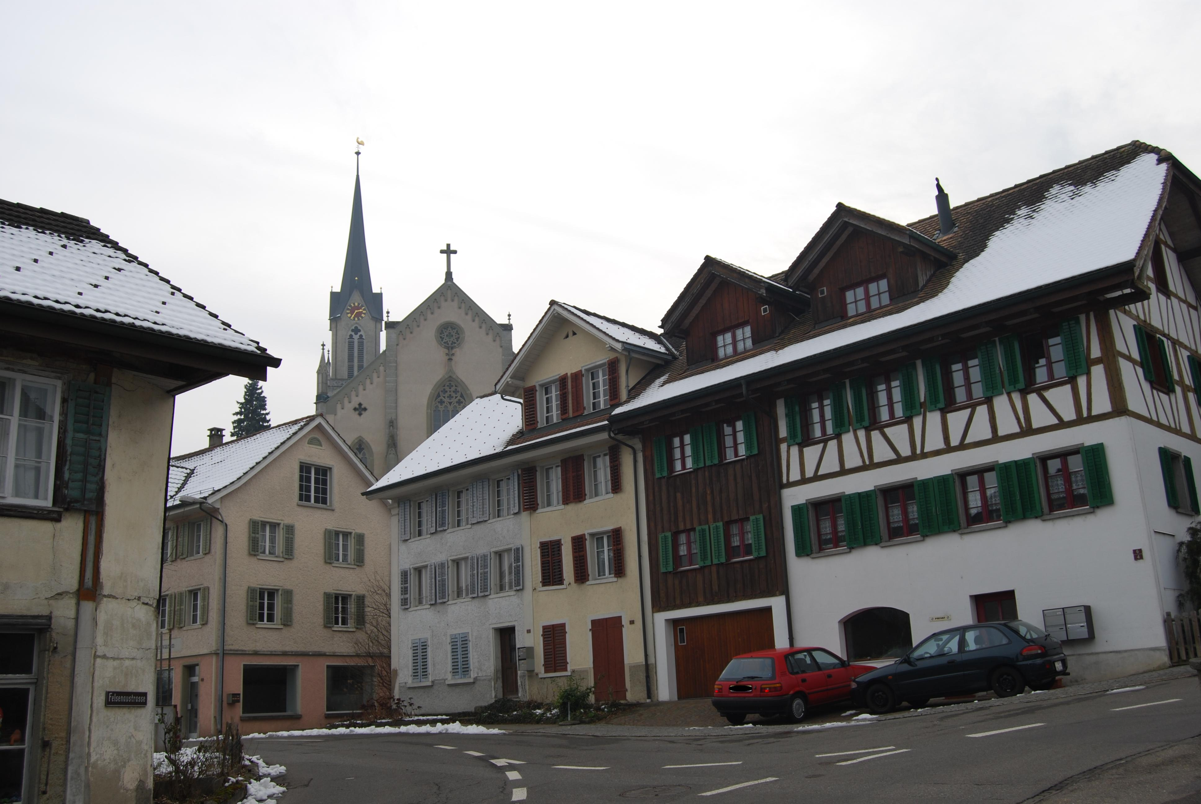 View to the church in the historic centre of Villmergen, canton of Aargau, SwitzerlandEsperanto: Rigardo al la preĝejo en la historia centro de de Villmergen, Kantono Argovio, Svislando